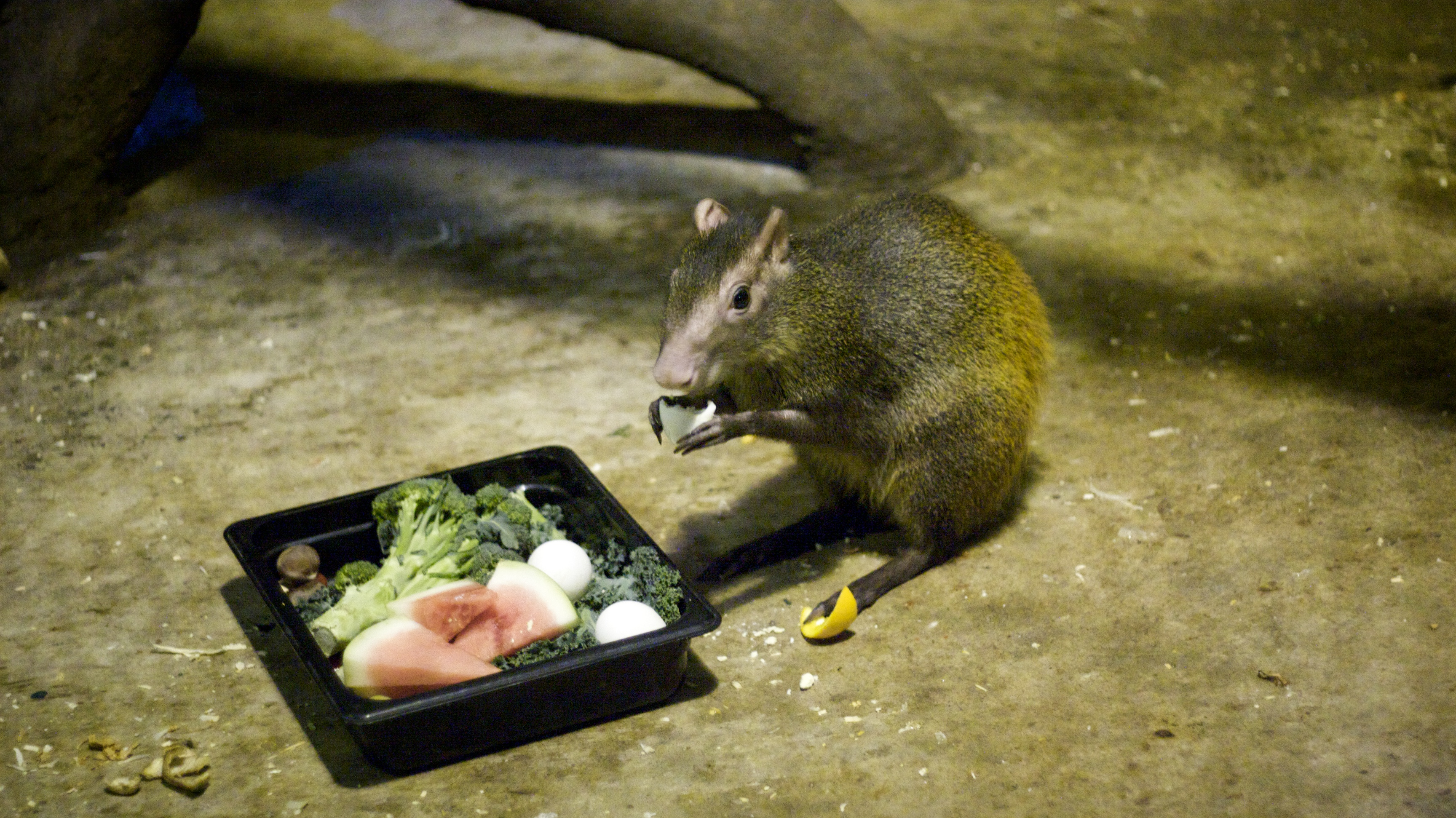 Animal feeding in near darkness in the nocturnal house at the Calgary Zoo.